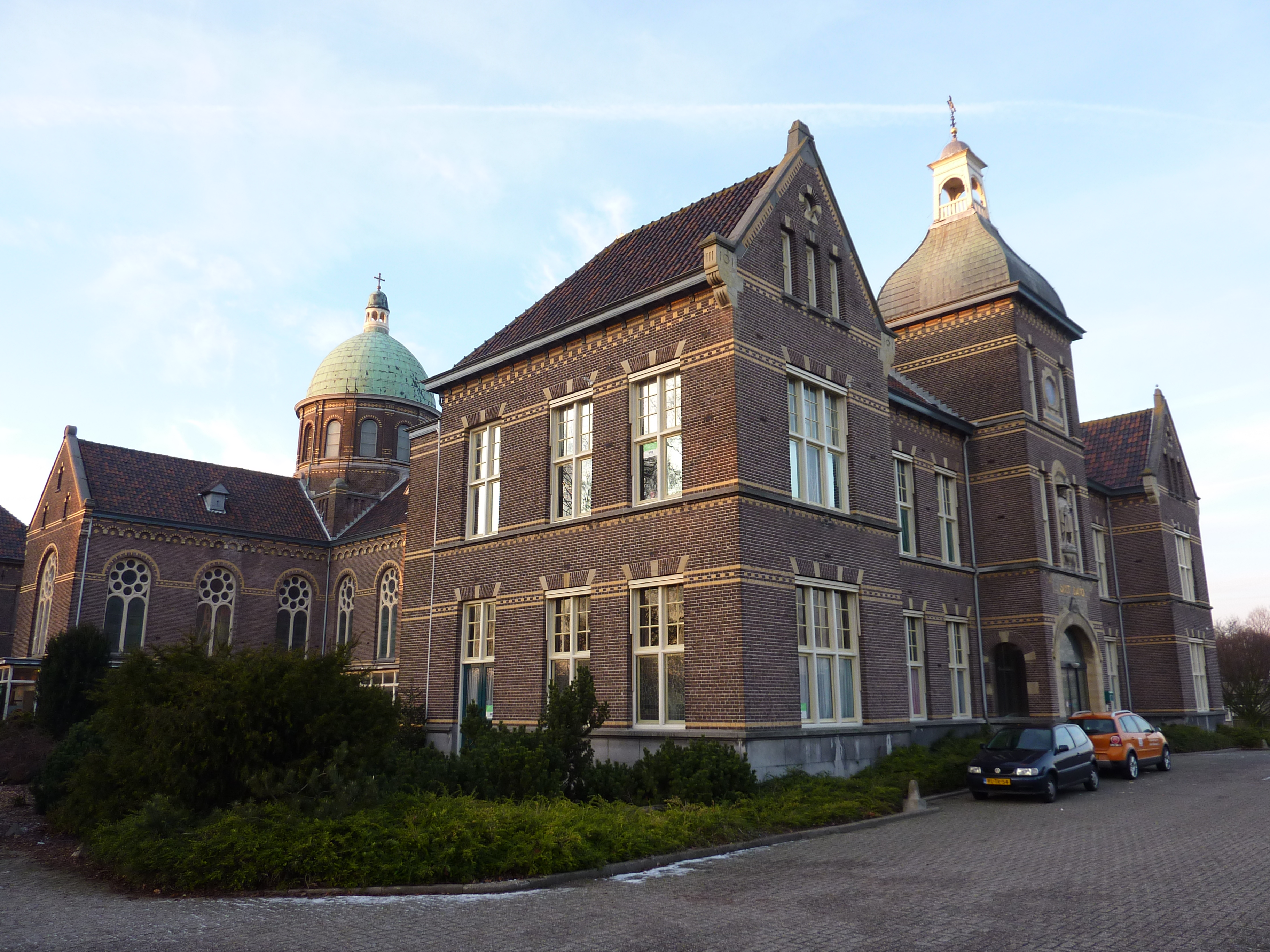 Noordwijkerhout, St. Bavo, koepel